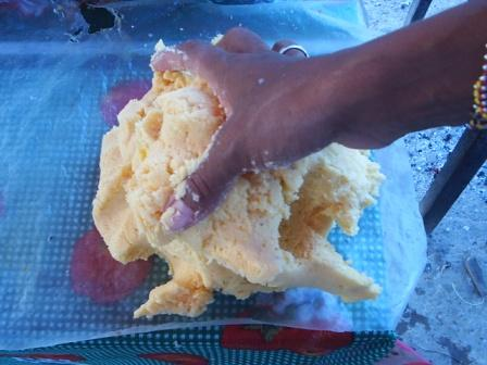 Person elaborating the "empanadas con huevo".